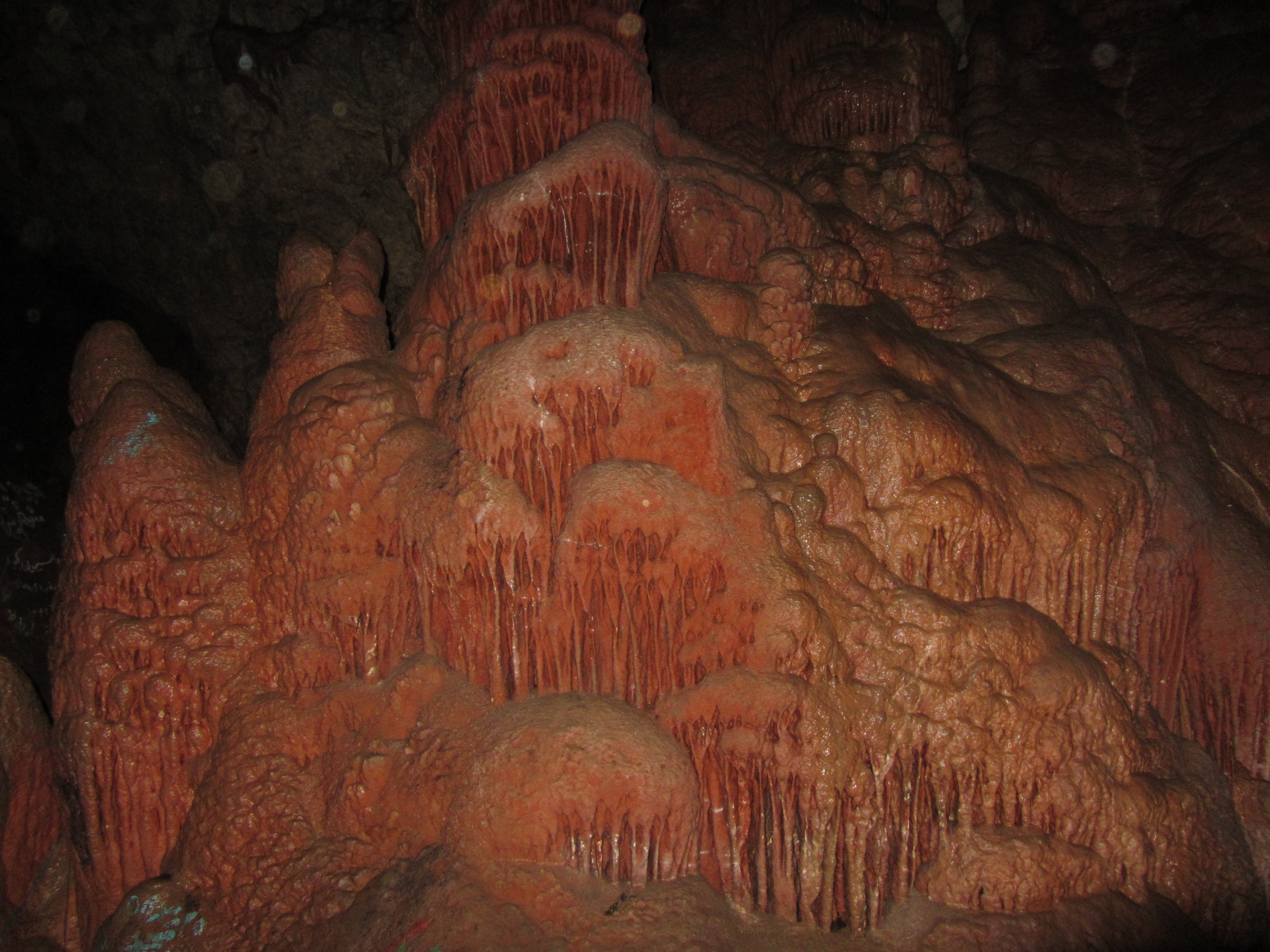 The Cave Of Kahak, Qom, Iran